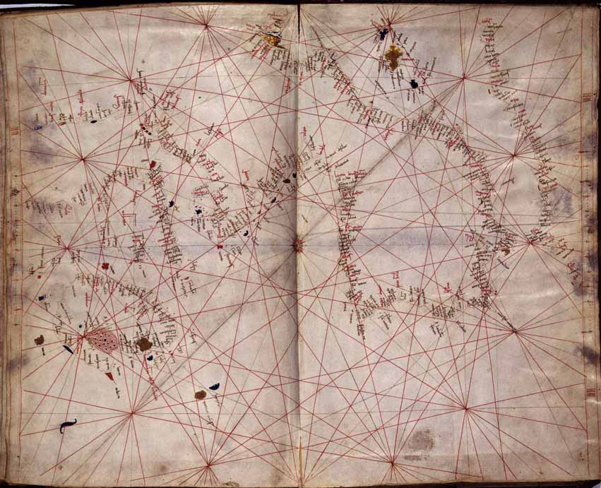 The third sheet of the four-sheet Corbitis Atlas ("Corbizzi"), a set of Italian portolan charts, believed to have been made by an anonymous Venetian cartographer, between 1384 and 1410. The atlas (Ms. It. VI 213) is held at the Biblioteca Nazionale Marciana in Venice, Italy. This 3rd sheet (oriented with East on top) depicts the west Mediterranean and North Atlantic coast (from Iberian peninsula to British isles)